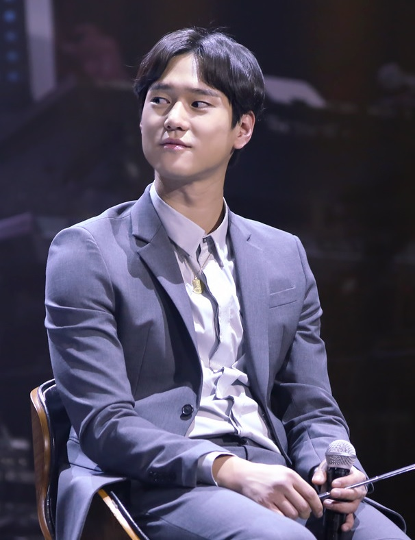 160305 응답하라1988 콘서트